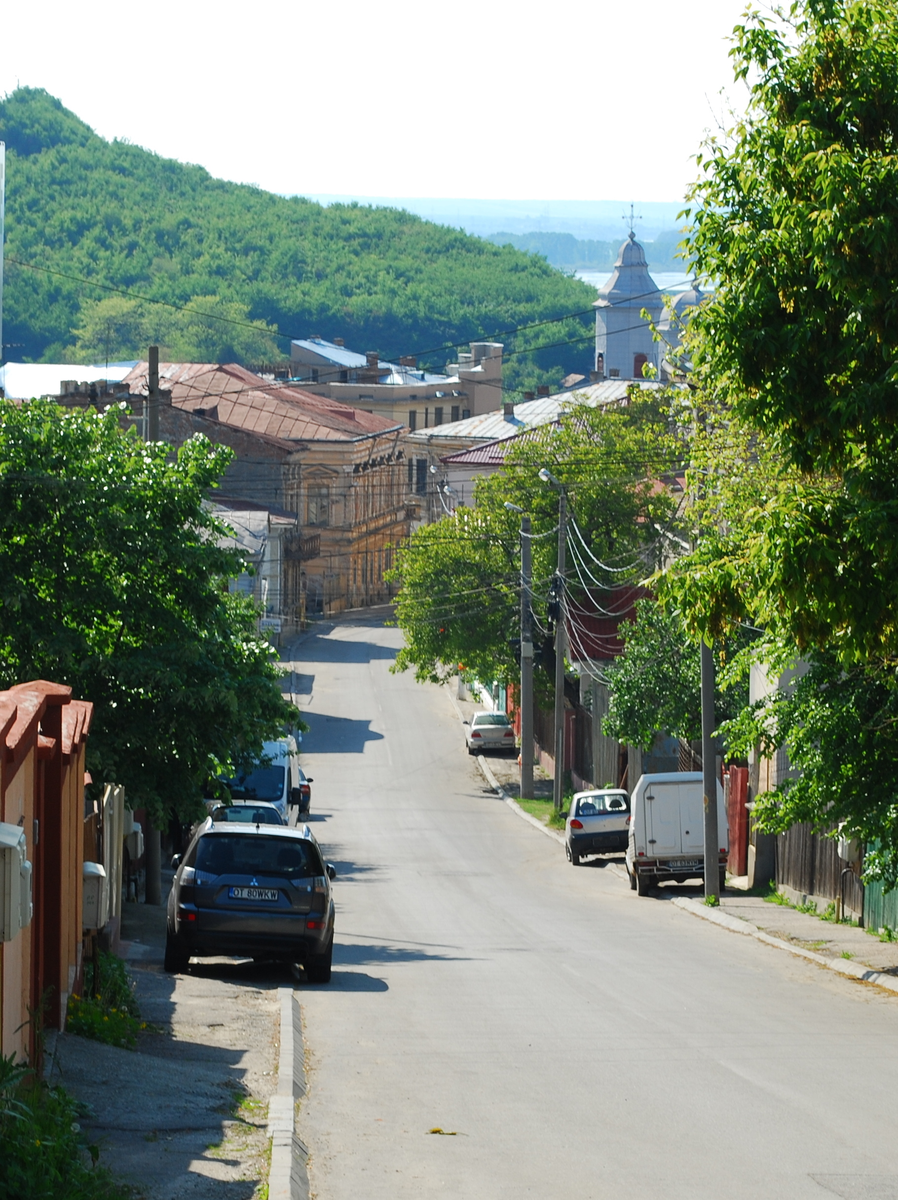 A street in the old town of Slatina, Olt County, Romania